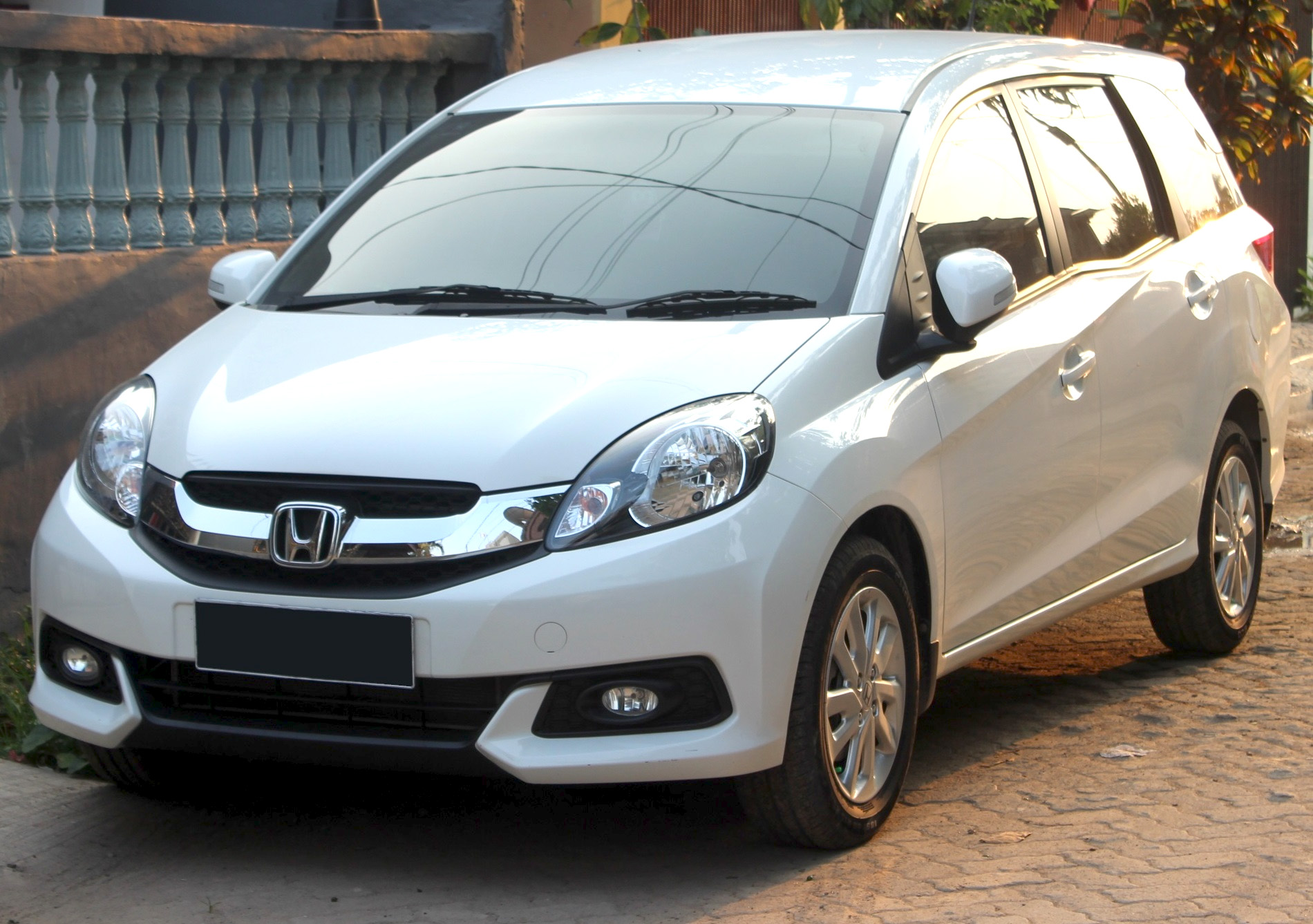 A Honda Mobilio E photographed in Dadap, Banten, Indonesia on June 2, 2015.